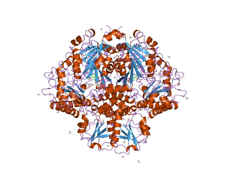 Cartoon representation of the molecular structure of protein registered with 1ord code.